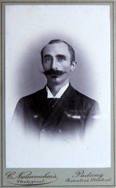 Self-portrait